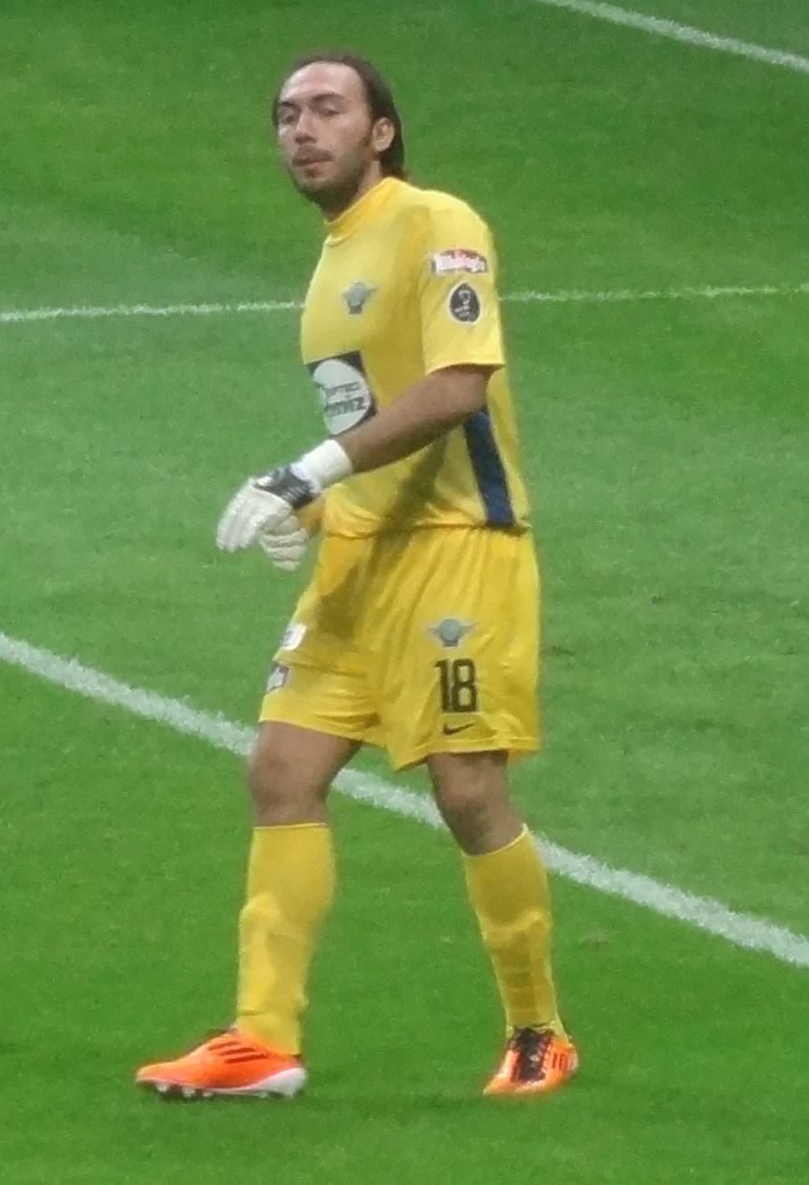 Oğuz vs Galatasaray